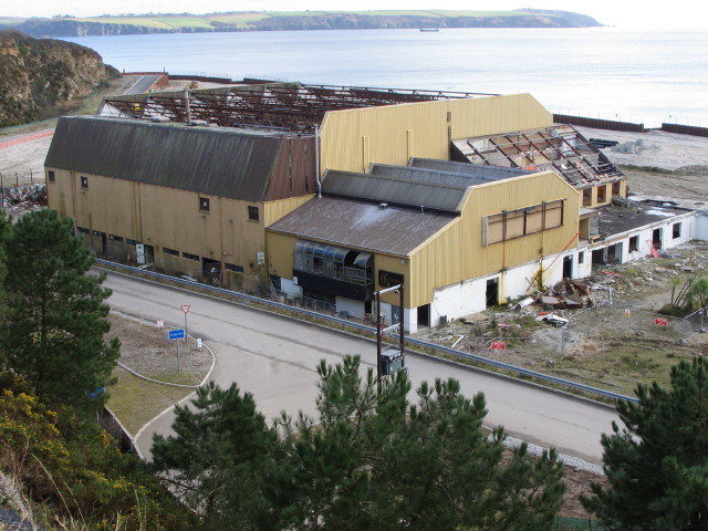 Partly demolished Cornwall Coliseum, Carlyon Bay The developers' plan is to replace the old Cornwall Coliseum with a new leisure complex called 'The Beach'.